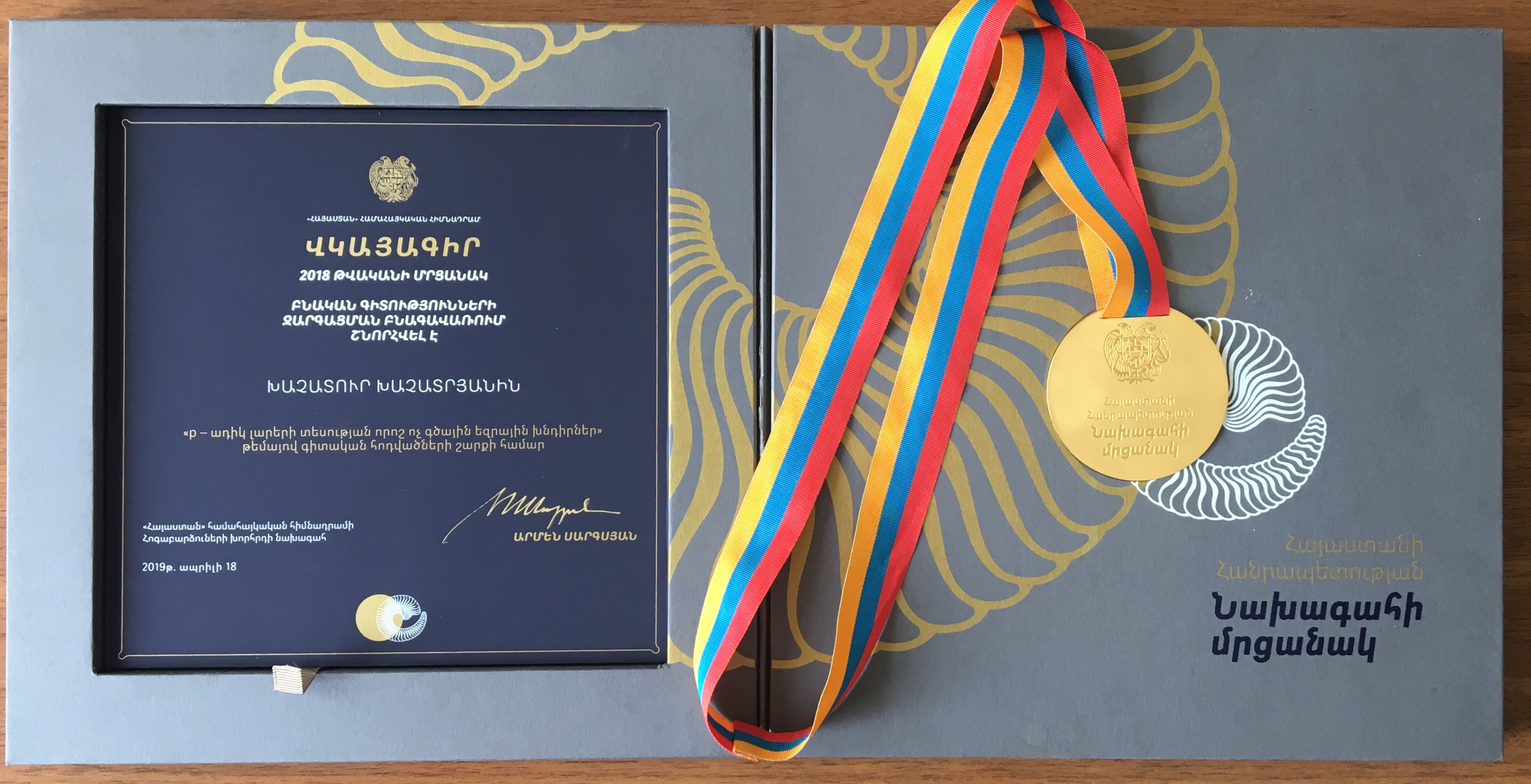 president prize